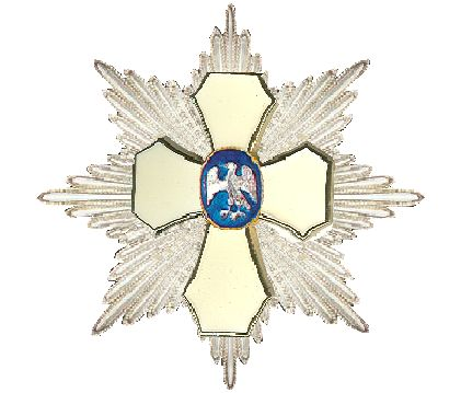 Star Order of the Falcon